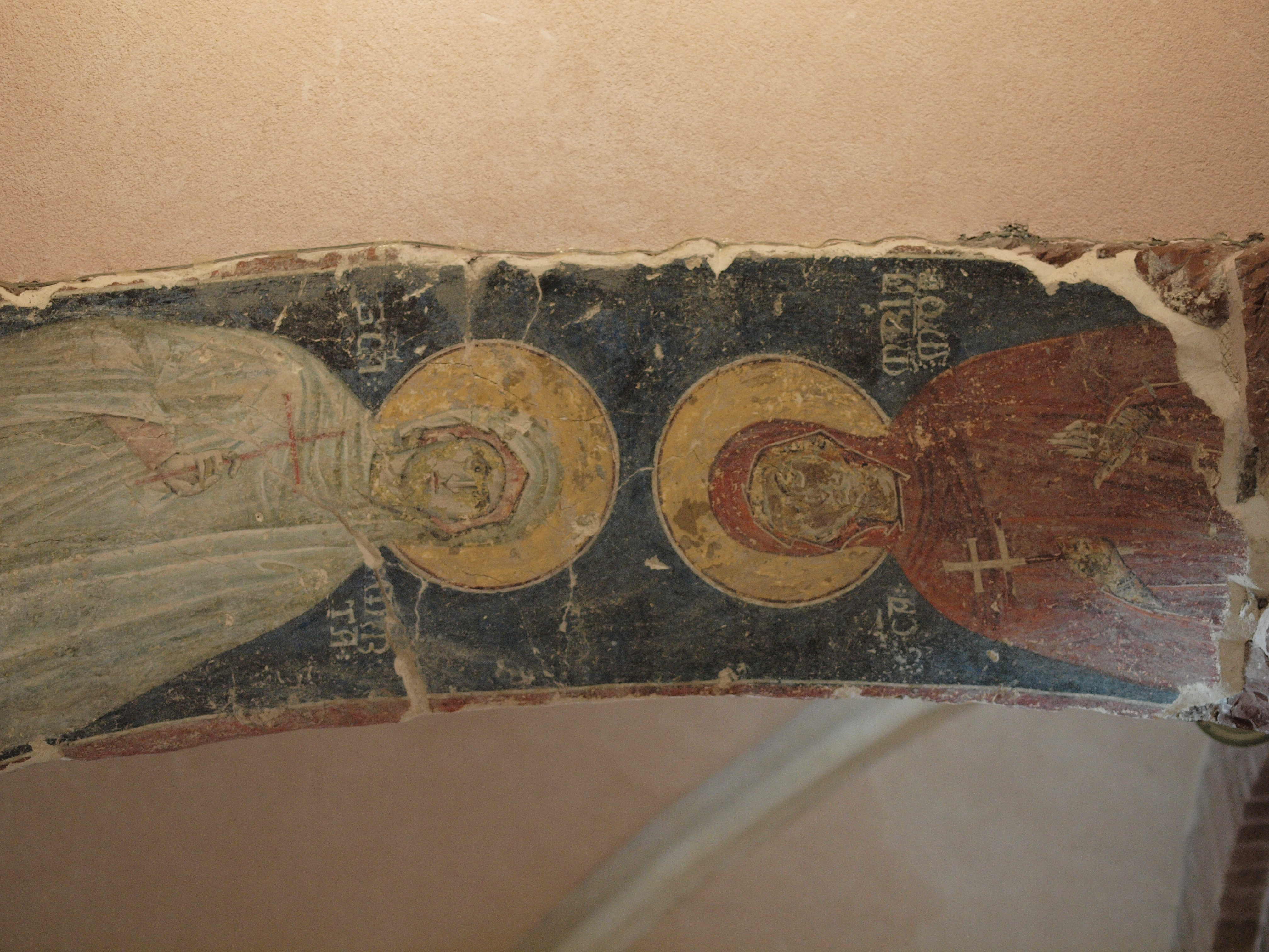 Kotor cathedral Tryphon, byzantine frescoes, 1331